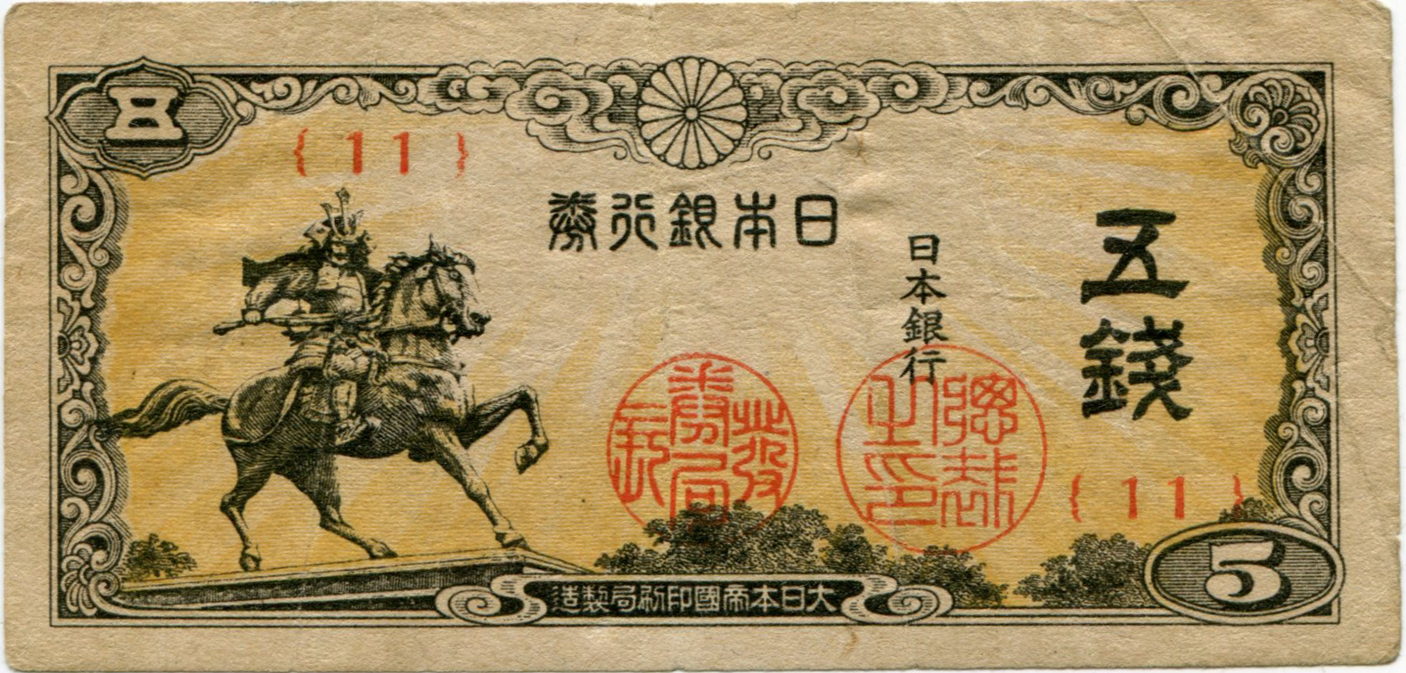 Series Yi 5 Sen Bank of Japan note. First issued in 1944. Demonetized in 1958. Statue of Kusunoki Masashige outside Imperial Palace, Tokyo, Japan. 100mm x 48mm.